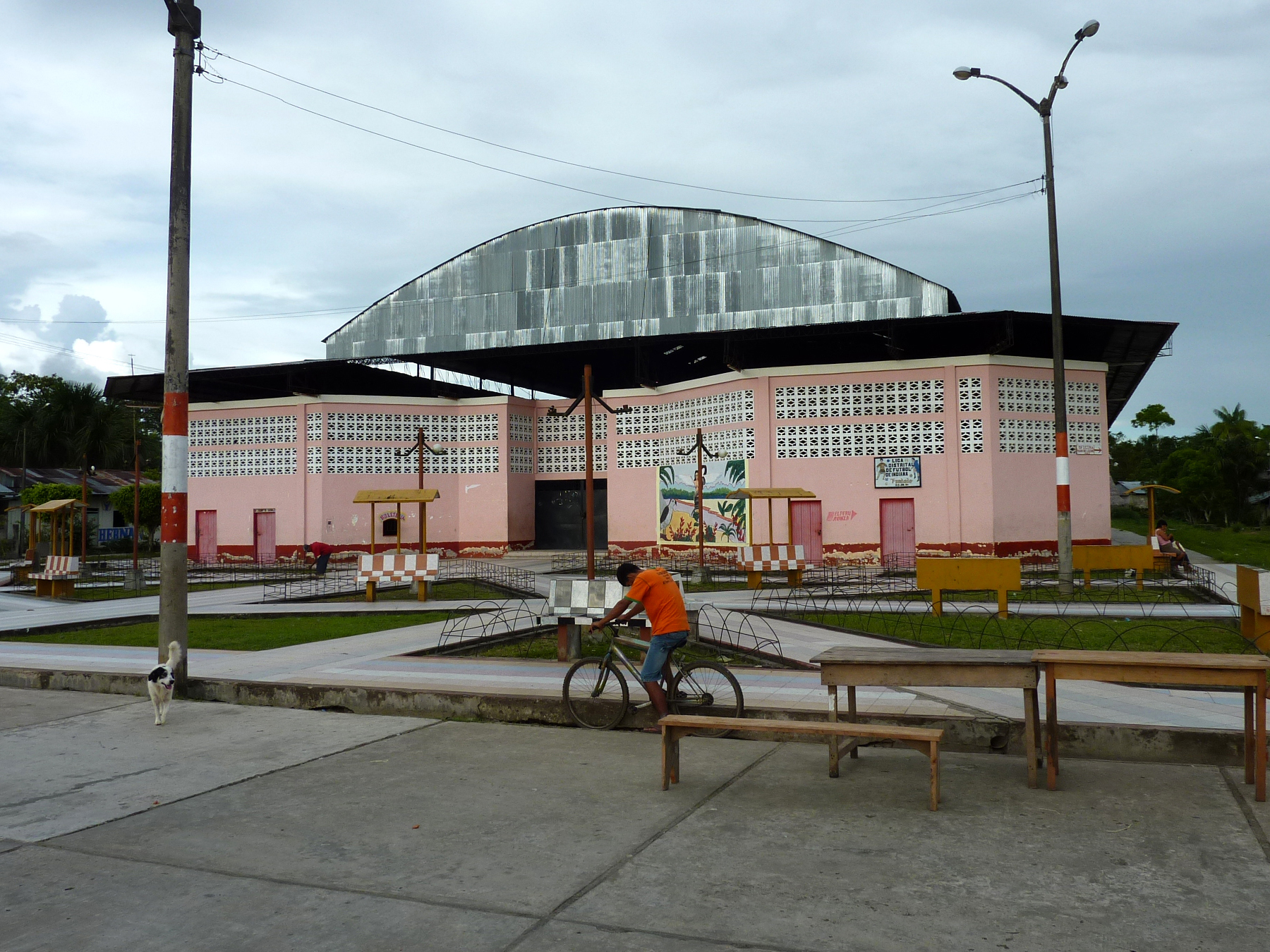 Arena in Indiana, Loreto Region, Peru — in the heart of the Amazon jungle.